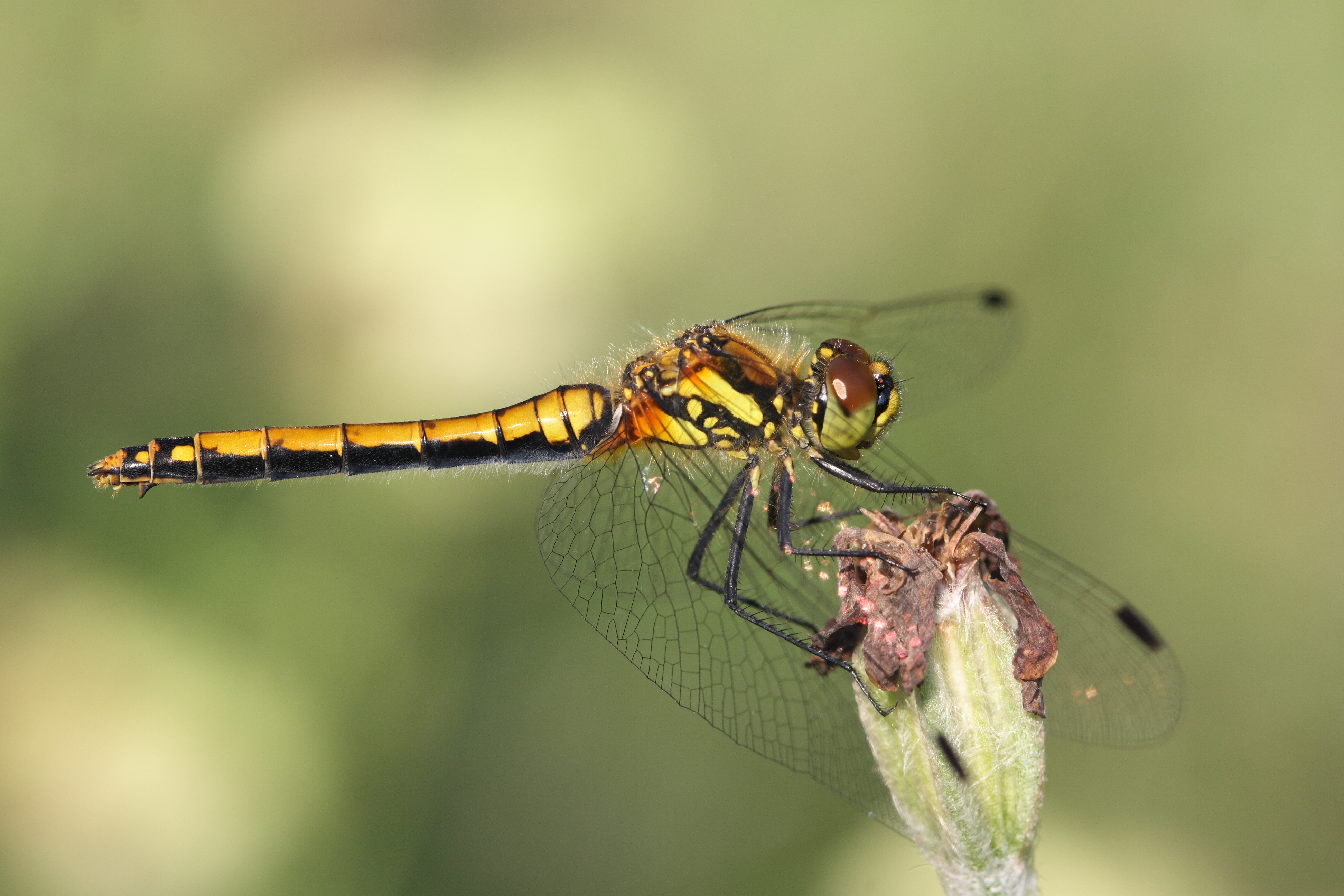 Young Female of the Black Darter (Sympetrum danae) in Otterndorf, northern Lower Saxony, Germany. Well to recognize is the distant ovipositor, wich marks Sympetrum danae among the darters with black legs.[1]